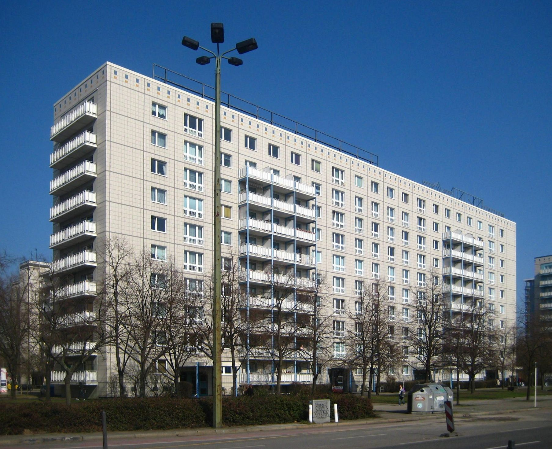 Apartment block Karl-Marx-Allee 5/11 in Berlin-Mitte. The building was constructed during the final stage of development of the boulevard. It is part of the protected historic buildings area Karl-Marx-Allee.